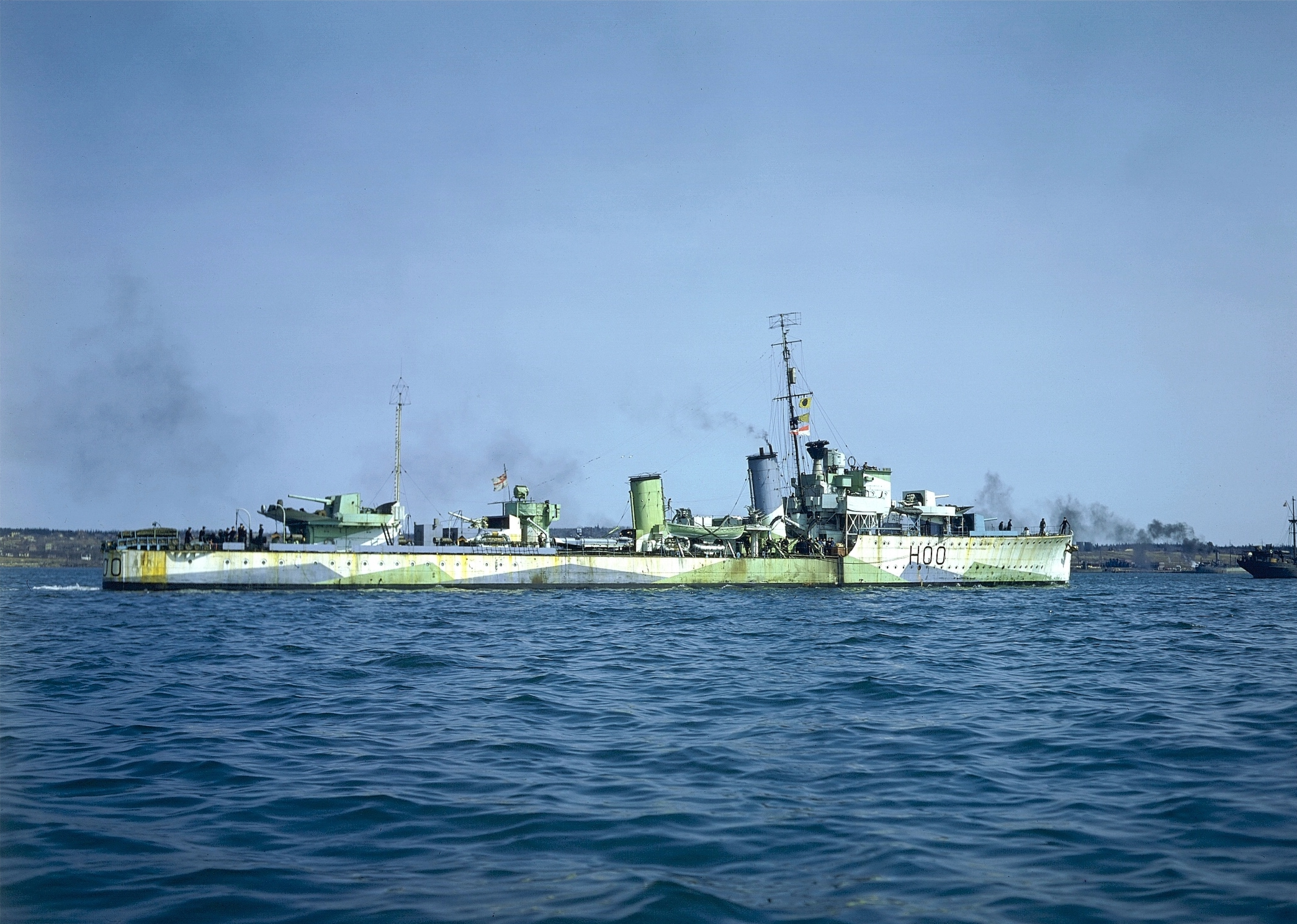 The Canadian destroyer HMCS Restigouche (H00), circa 1944-1945. Restigouche was commissioned as the British C-class destroyer HMS Comet (H00) in 1932. She was transferred to the Royal Canadian Navy on 15 June 1938 and renamed Restigouche.